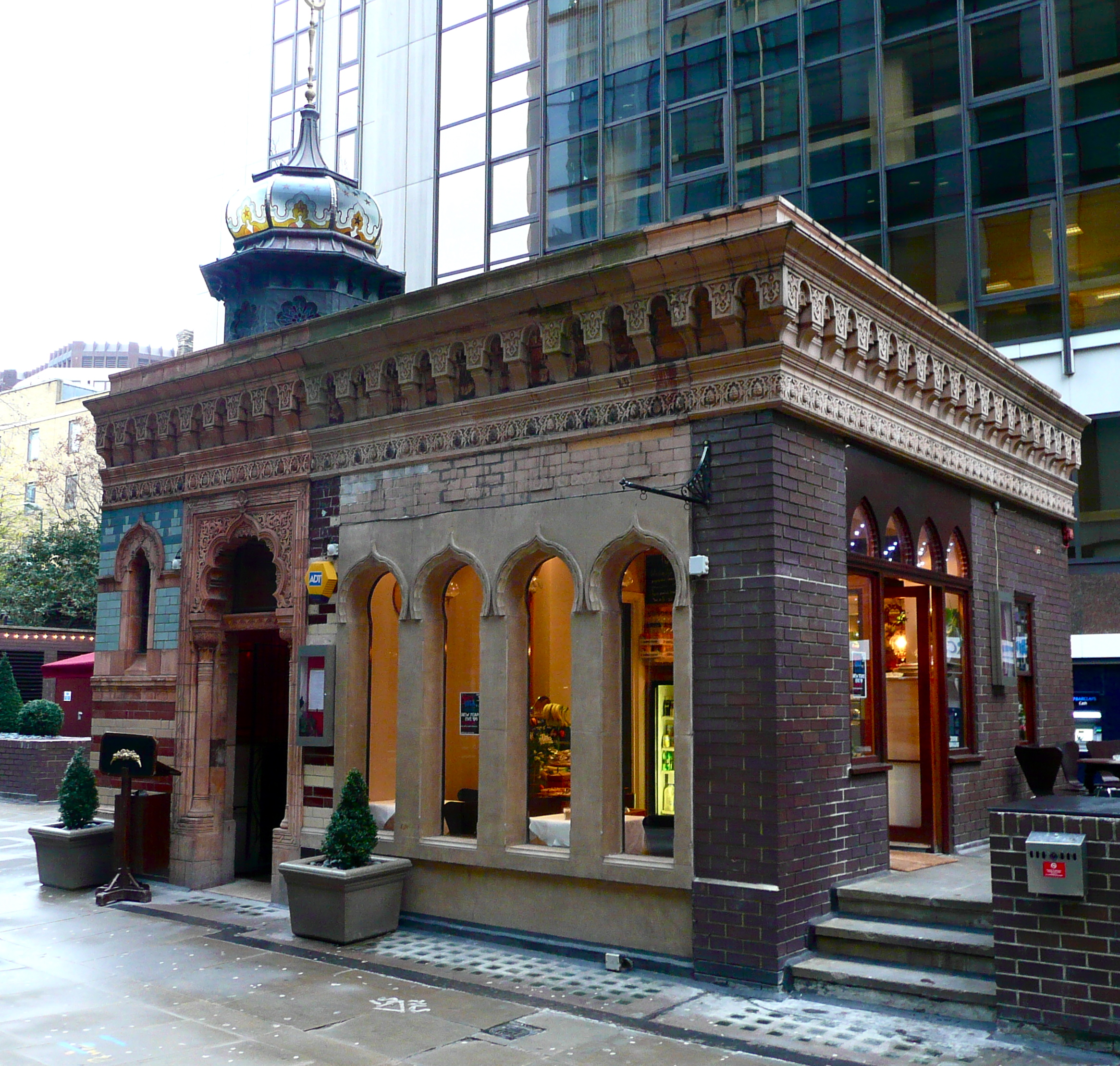 Built in 1895 as a Turkish bath in London. It was once a Turkish restaurant named 'Gallipoli'. It is now a listed building and an events venue